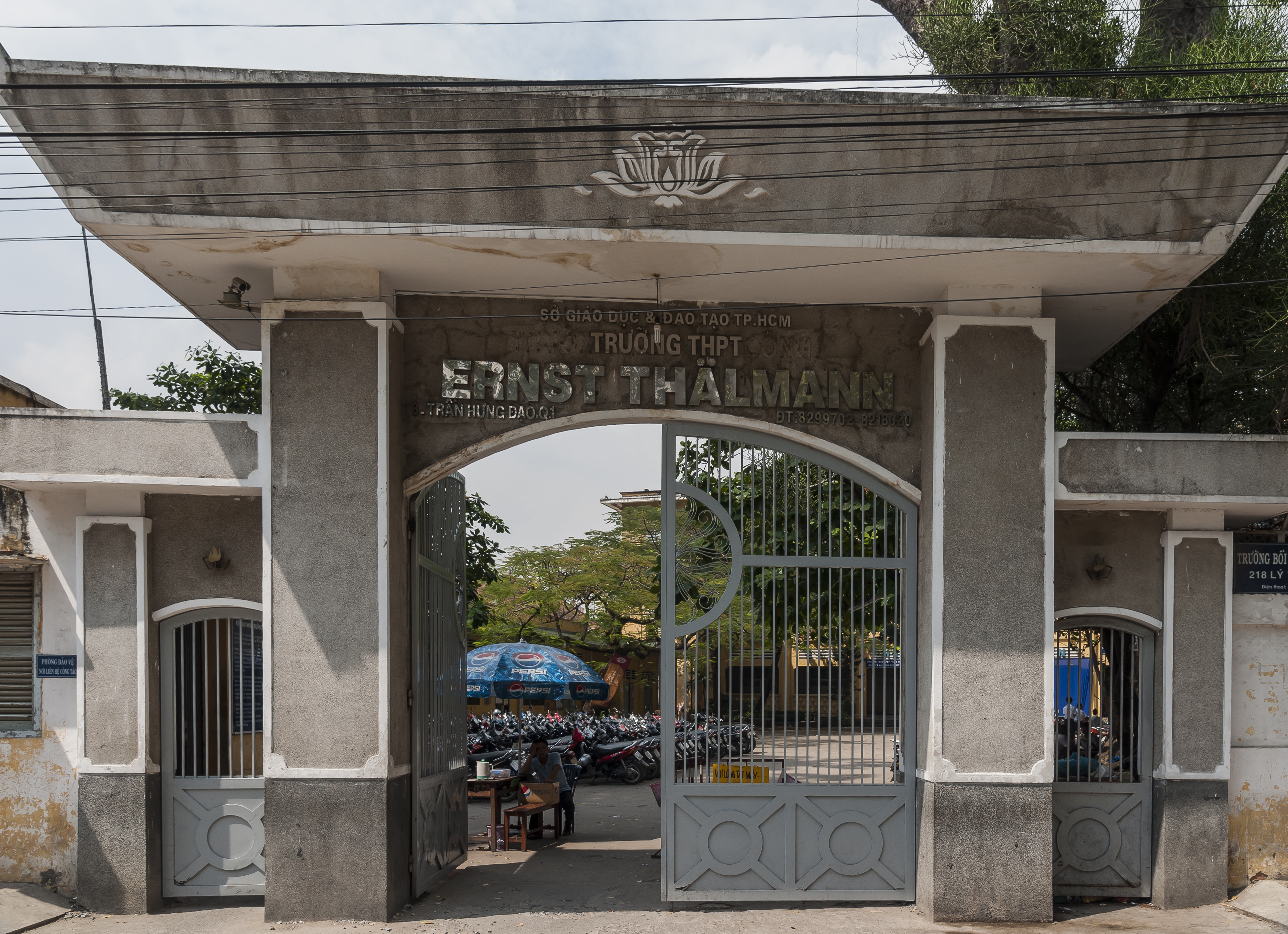 Ho Chi Minh City, Vietnam: Trường THPT Ernst Thalmann (Ernst Thälmann High School)